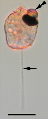 Light micrograph of a single Erythropsidinium sp. isolate (a Warnowiid dinoflagellate). Double arrowhead = ocelloid (light-sensitive structure analogous to metazoan eyes); arrow = piston. Scale bar = 20 microns. This image is lightly edited to remove distracting panel label from Panel R of Figure 1 from Hoppenrath et al. 2009, Molecular phylogeny of ocelloid-bearing dinoflagellates (Warnowiaceae) as inferred from SSU and LSU rDNA sequences, BMC Evolutionary Biology 9:116.